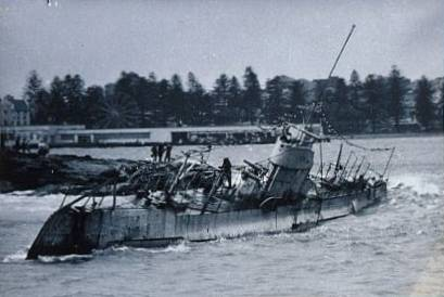 Dutch submarine K12 floundered on Fairlight Beach near Manly, New South Wales after a storm in 1949.